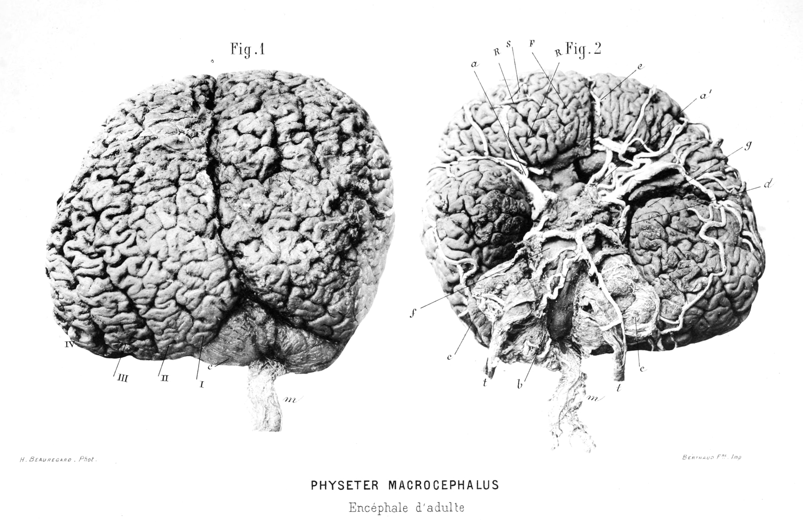 The brain of a sperm whale. This specimen was deformed due to poor handling Fig 1 - Top view Fig 2 - Ventral view I, II, III and IV - first, second, third and fourth parietal convolutions C - cerebellum F - frontal lobe M - spinal cord R - central sulcus S1 S2